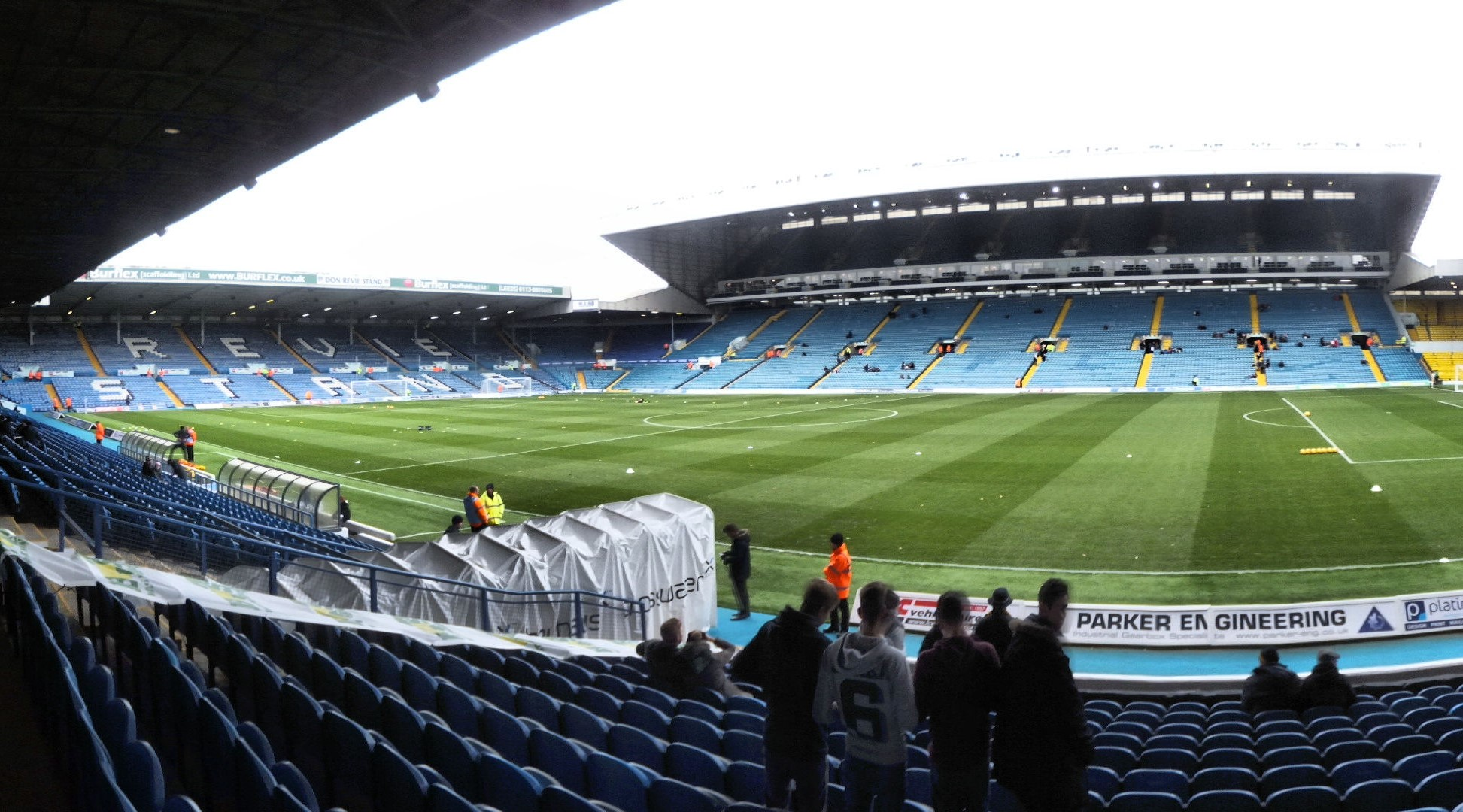 Elland Road Stadium. Leeds United.